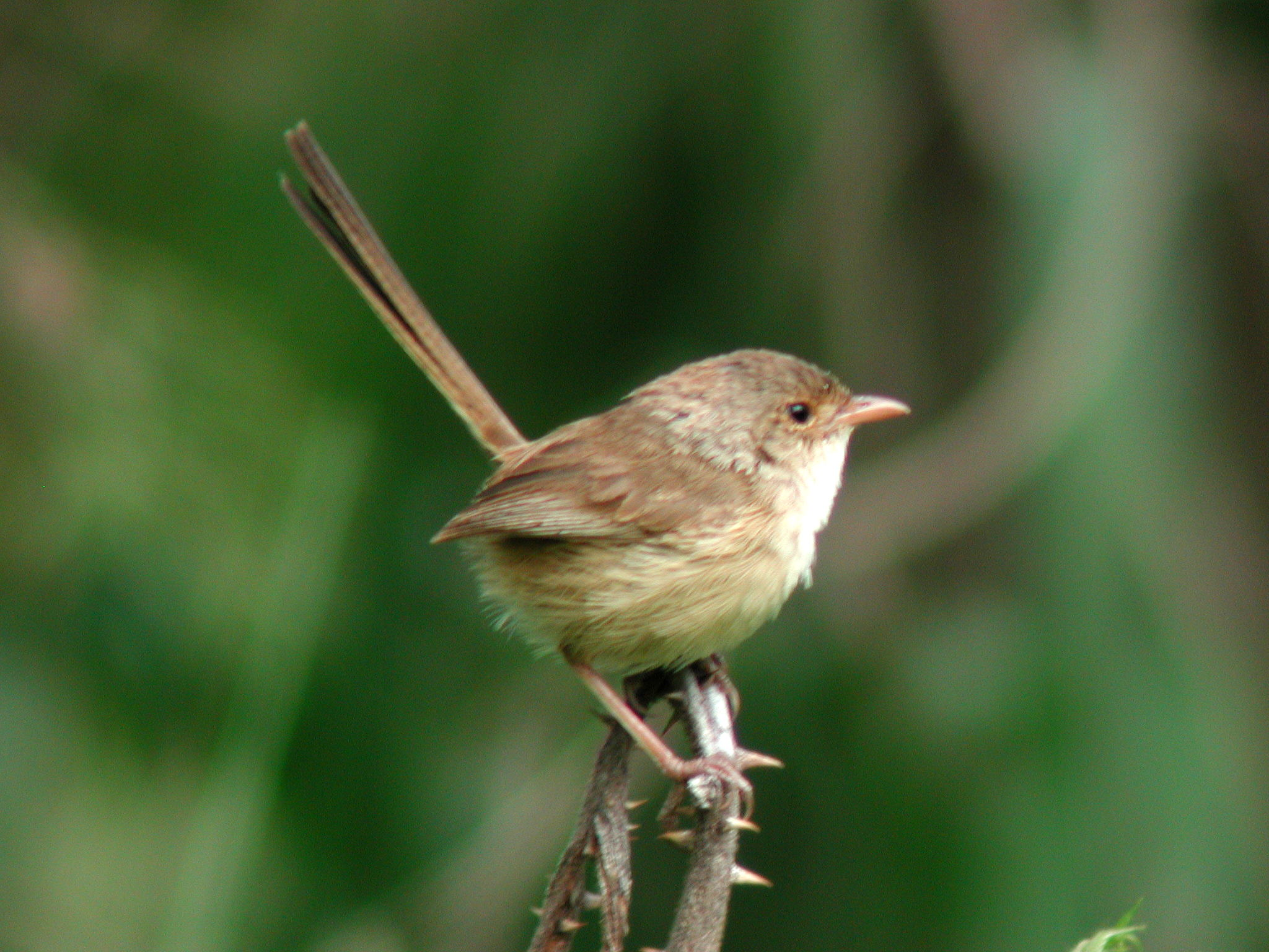 Red-backed Fairy-wren (Malurus melanocephalus) Female Samsonvale, SE Queensland, Australia